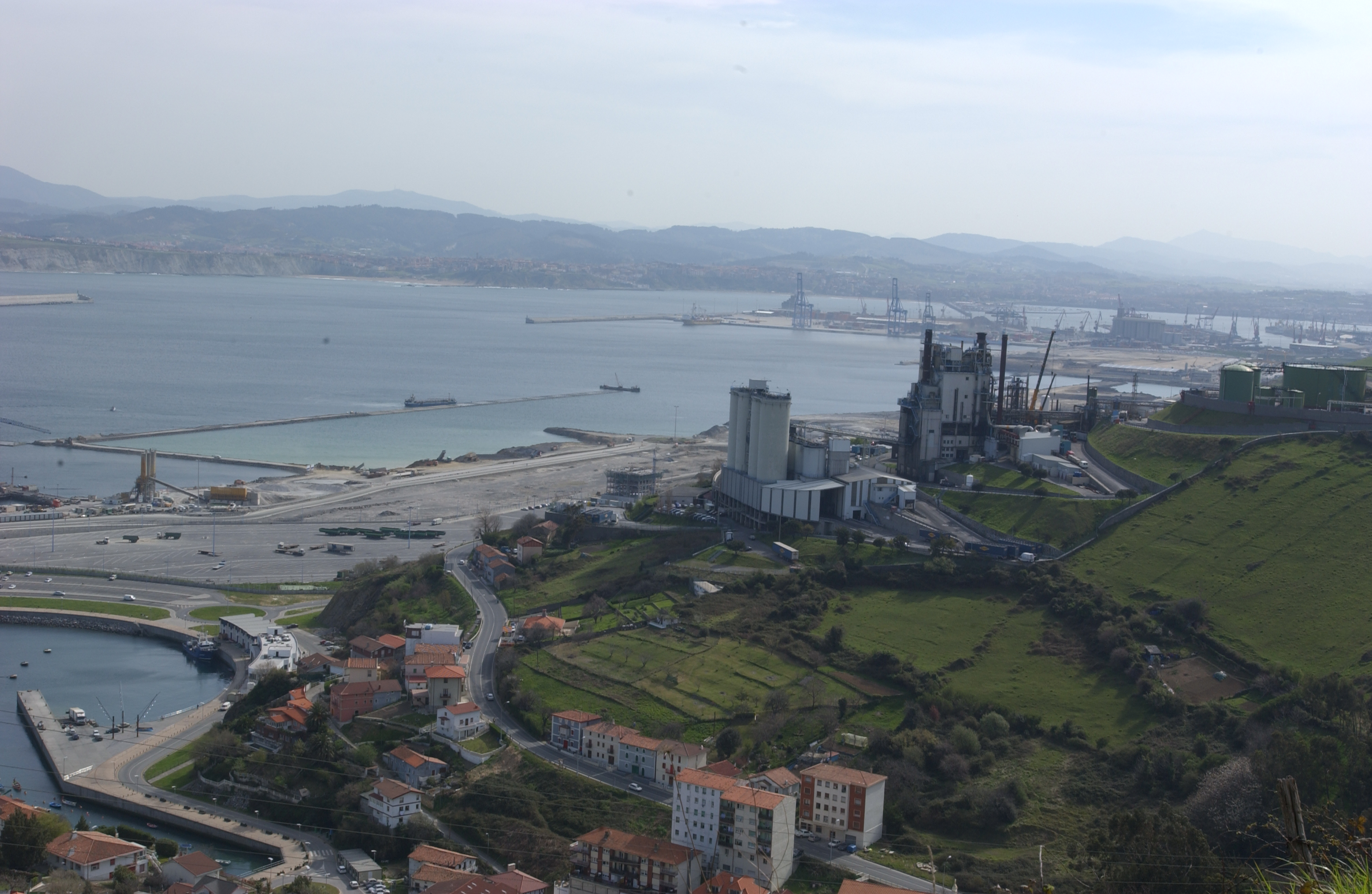 General view of Zierbena port. Zierbena, Bizkaia, Basque Country.